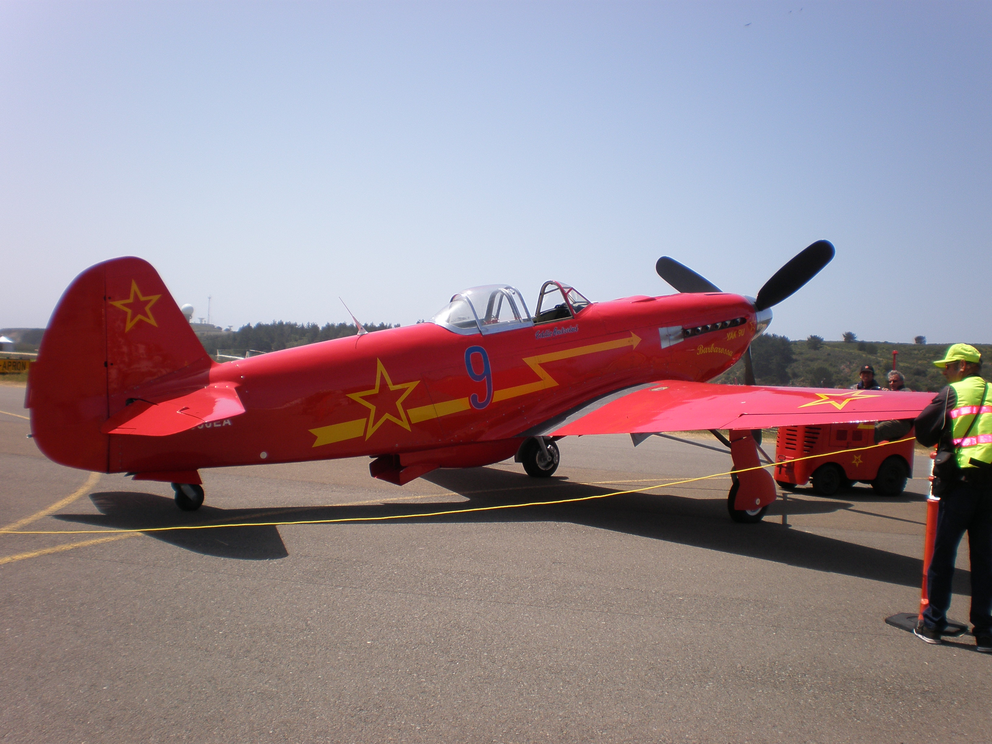 The Yakovlev Yak-9U "Barbarossa" at the Pacific Coast Dream Machines 2009 vehicle show at the Half Moon Bay Airport in Half Moon Bay, California.